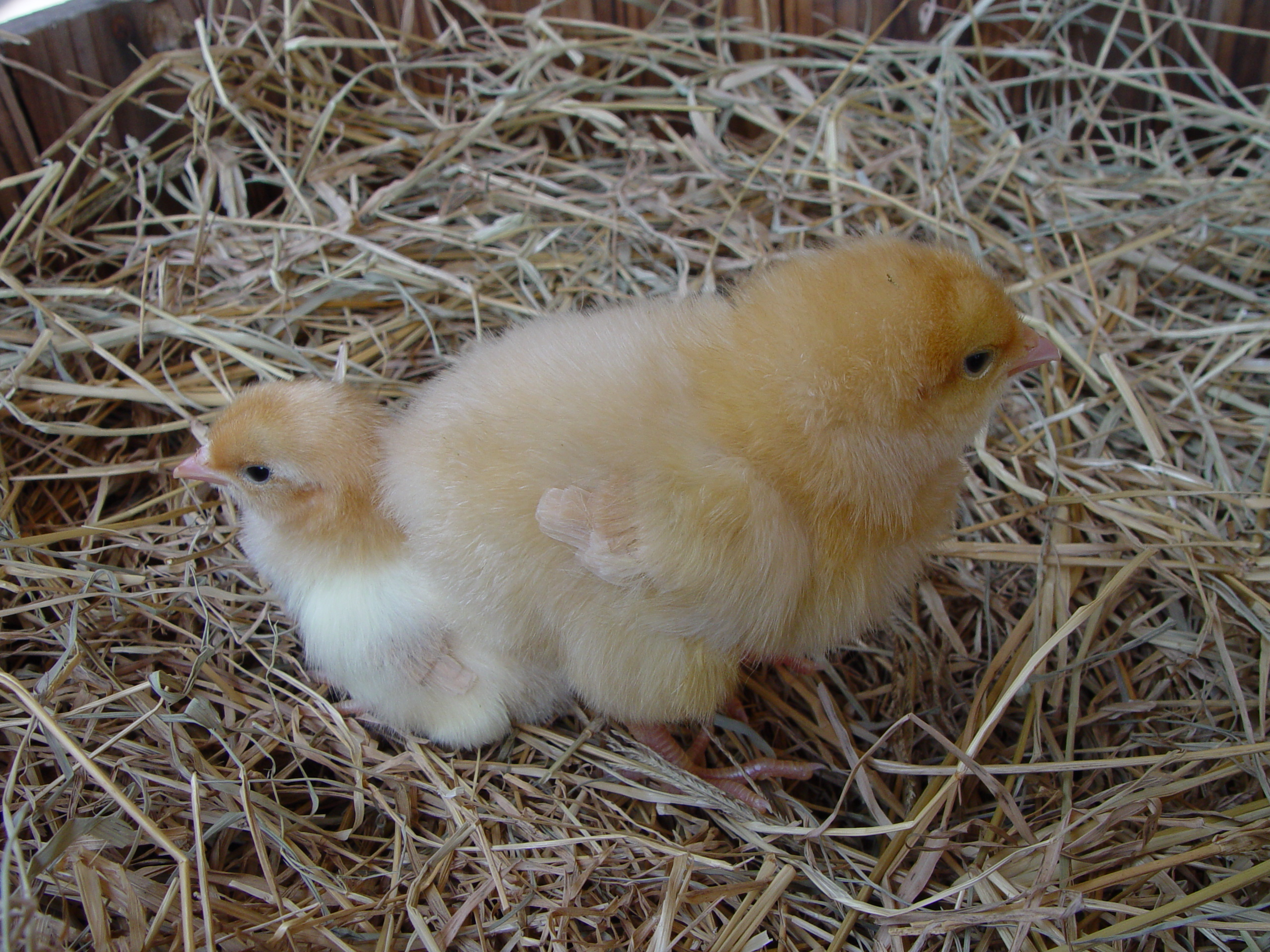 On the left is a Japanese Bantam chick, on the right is a Buff Orpington.